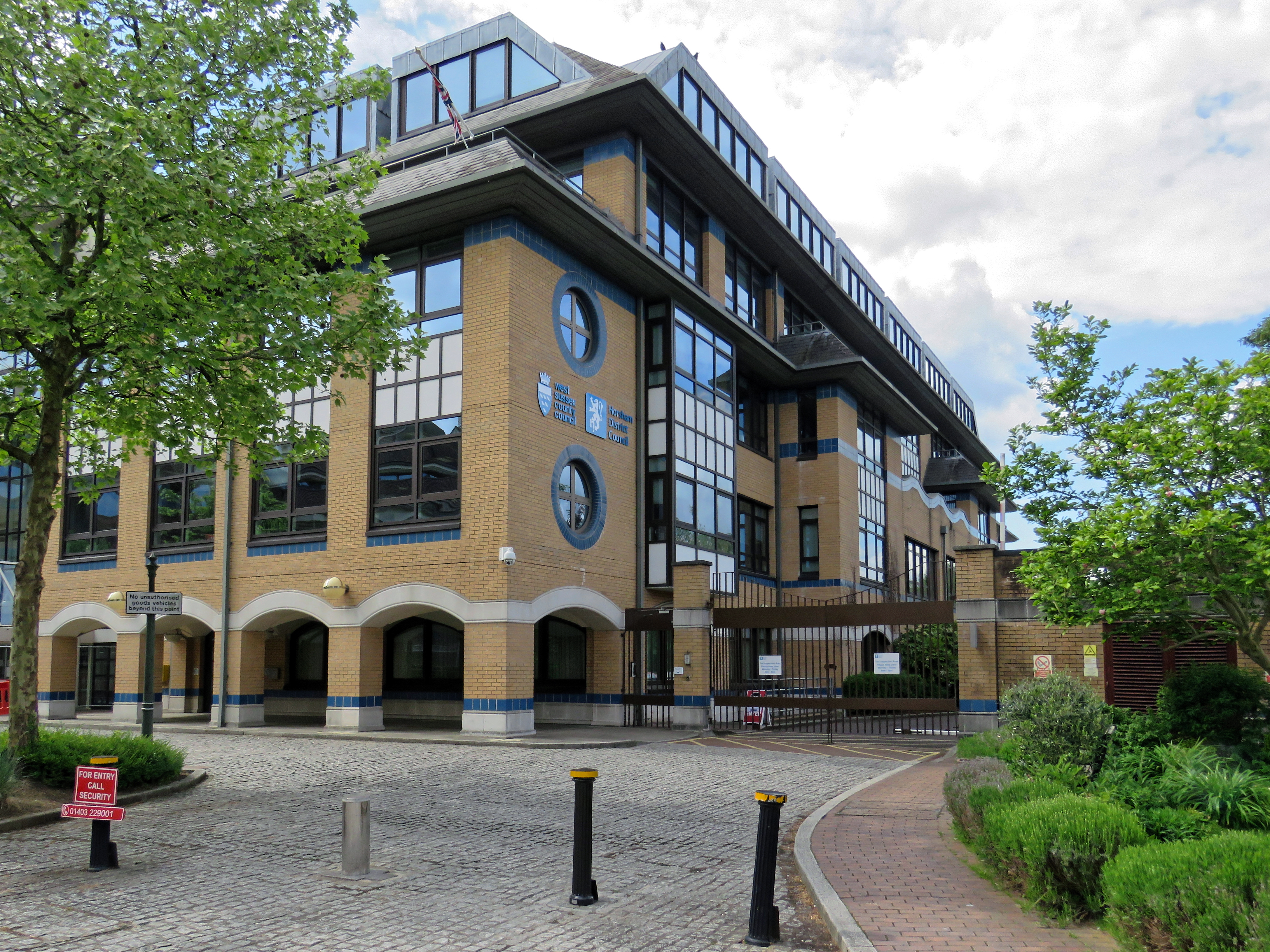 The combined West Sussex County Council and Horsham District Council offices on North Street in Horsham, West Sussex, England.Camera: Canon PowerShot SX60 HSSoftware: File lens-corrected, optimized, perhaps cropped, with DxO OpticsPro, and likely further optimized with Adobe Photoshop CS2.